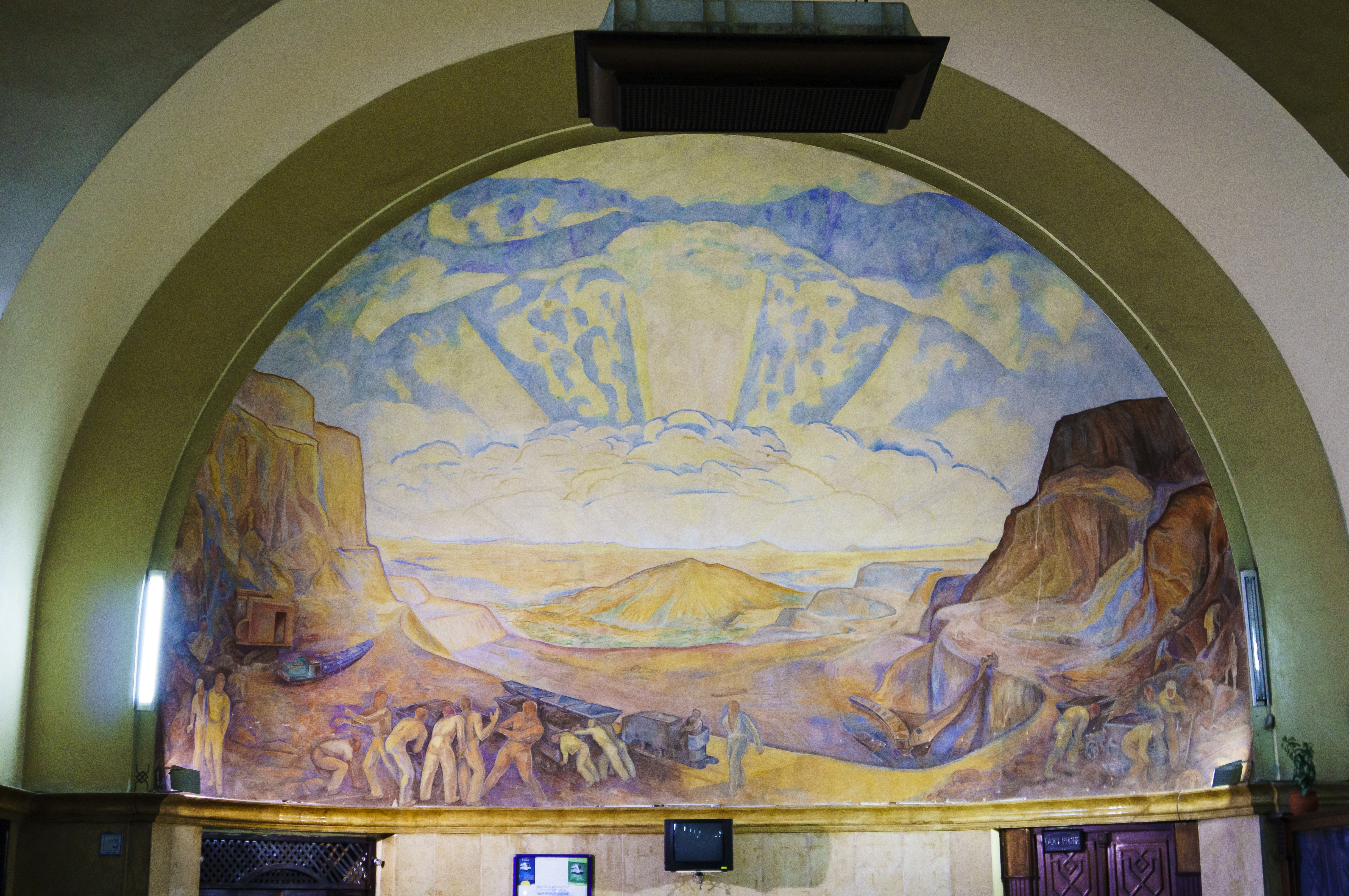 Wall art - Annaba Train Station